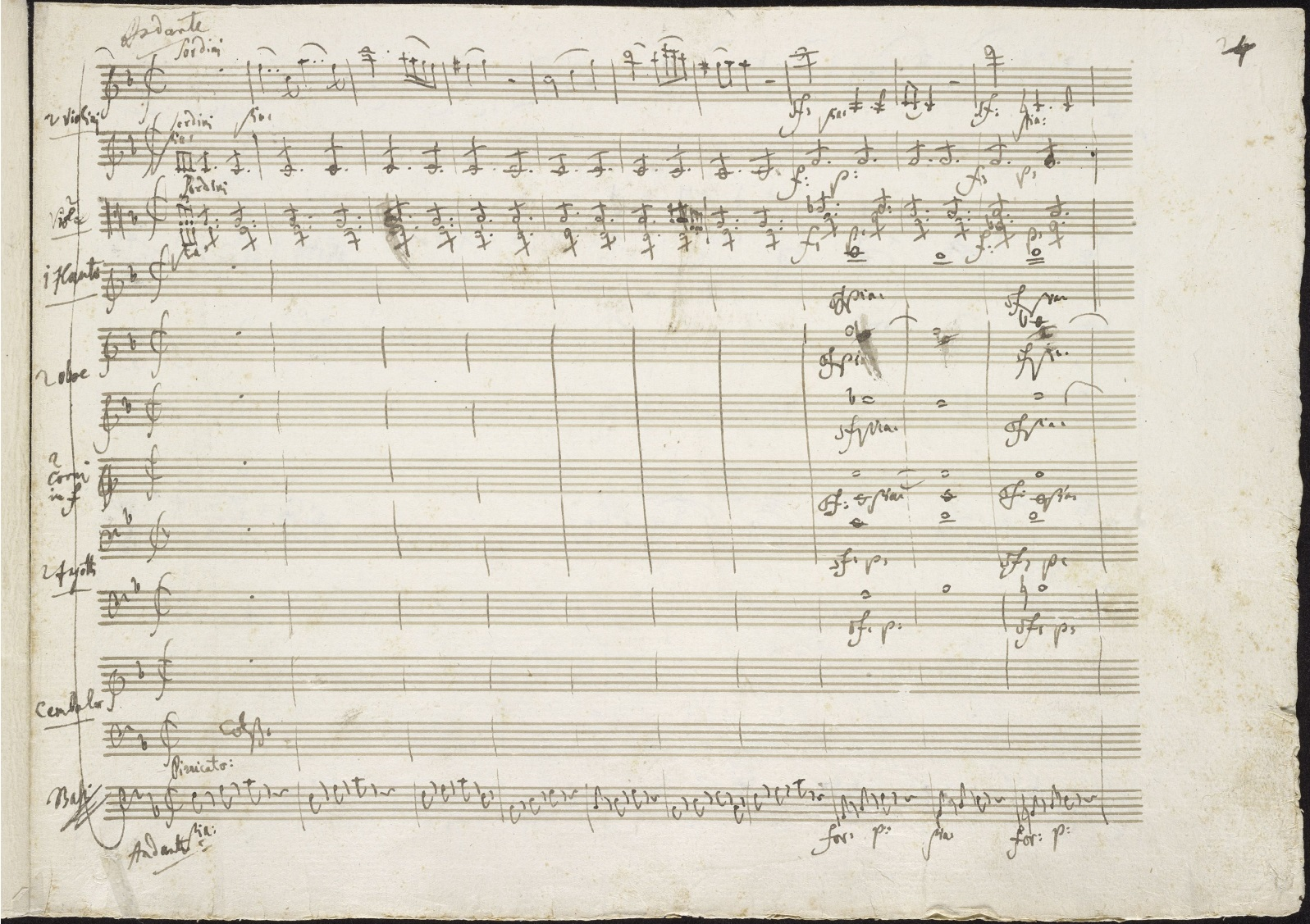 The opening of the second movement of Mozart's Piano Concerto No. 21, K. 467, in Mozart's handwriting.